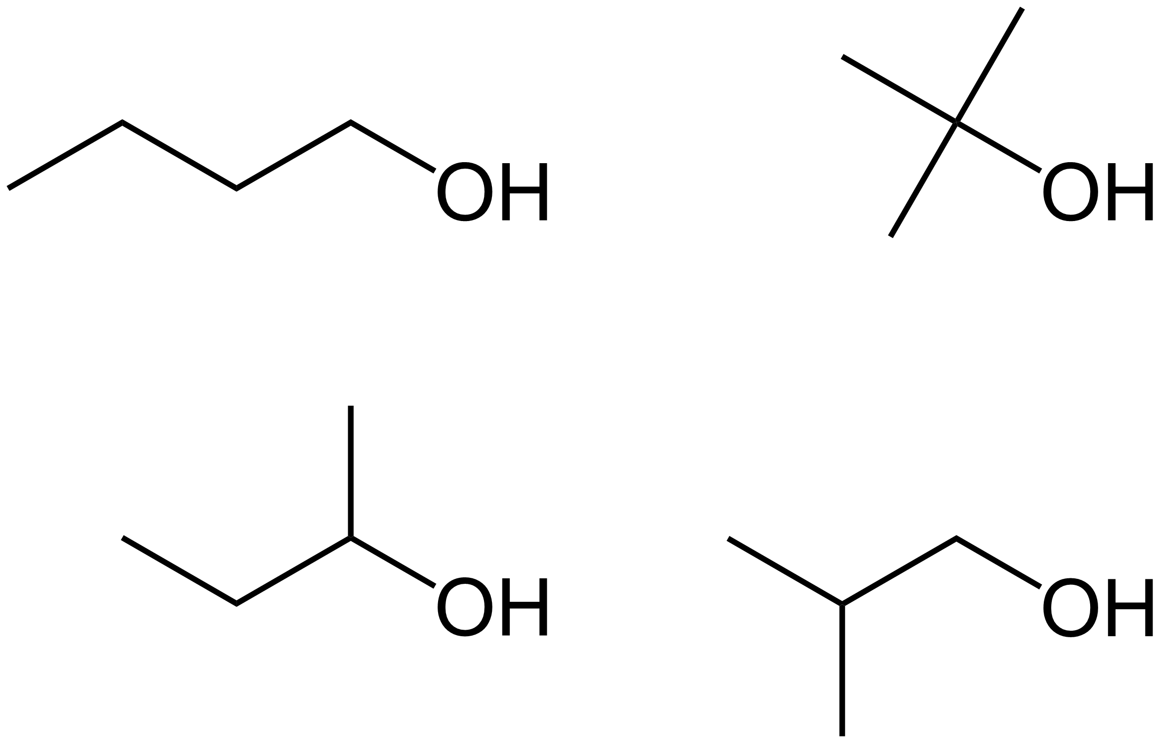 The structural isomers of butanol